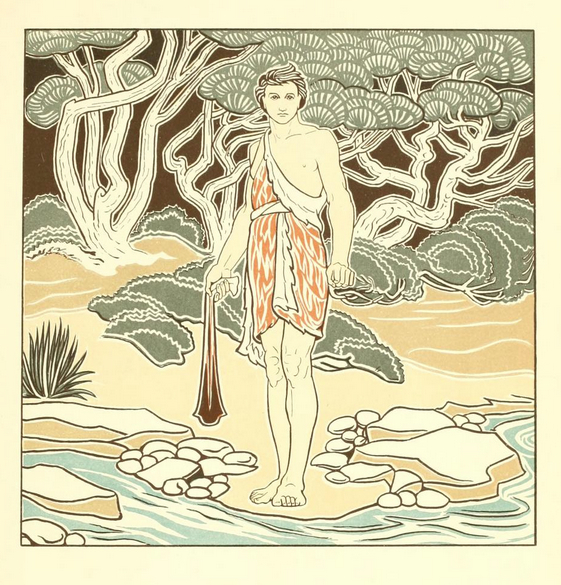 David, by Heywood Sumner, published in The Studio, issue 61, April 1898.